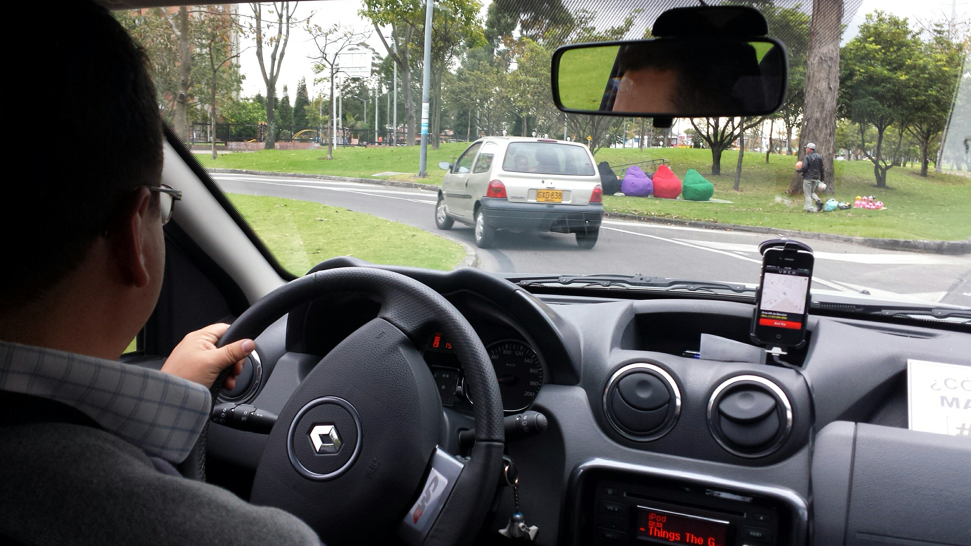 On my first @Uber ride in Bogota heading to a Startup Weekend. Priceless easiness and safety. I love disruptive innovation.